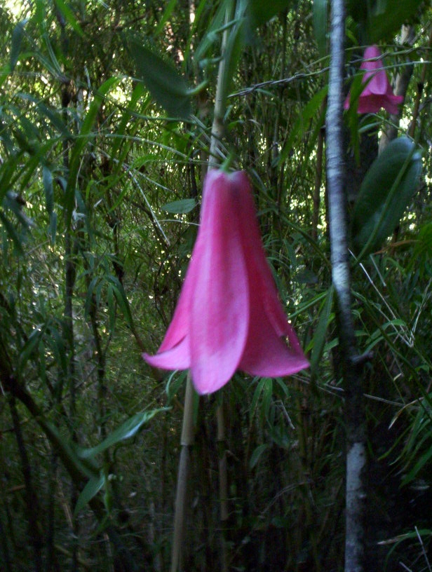 Copihue, flor nacional (Lapageria rosea) Autor: Néstor Gallegos Reyes Lapageria rosea the flower on the photo is a Coicopihue (Philesia magellanica) Aldo Reali (Puerto Aysén)